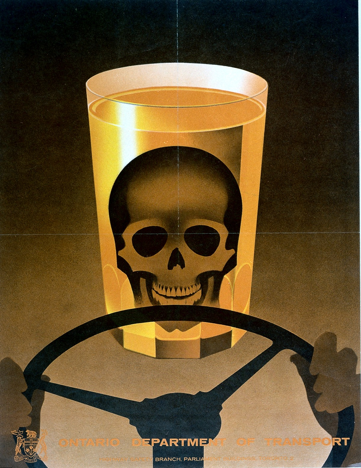 A skull in a drinking glass at the steering wheel of a motor vehicle, representing the fatal effects of drunken driving. Colour lithograph. Iconographic Collections Keywords: Health and Safety